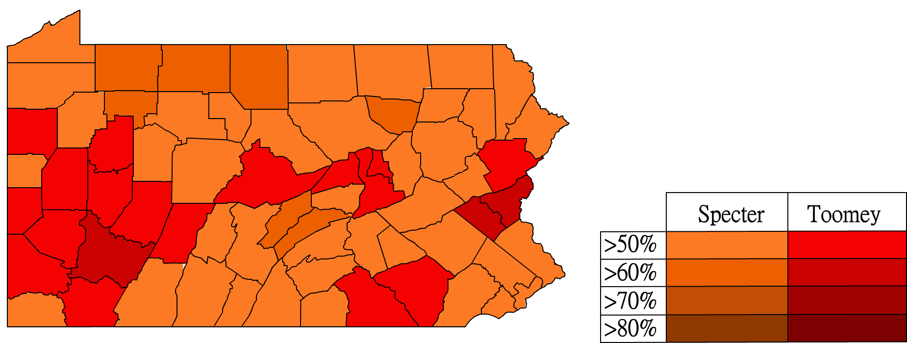 United States Senate election in Pennsylvania, 2004 (GOP Primary)